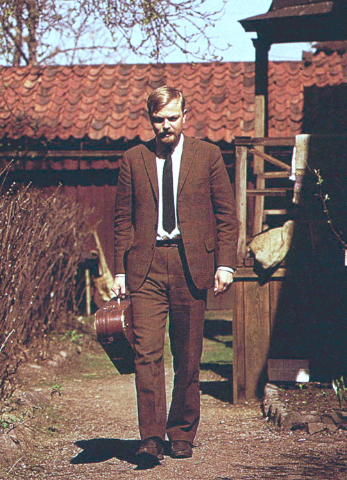 Singer and songwriter Olle Adolphson at Bastugatan 32, Stockholm, 1963.